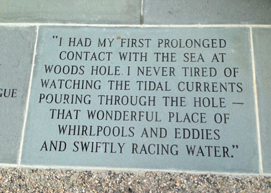 Rachel Carson's words are engraved on a stone at the base of the statue, which faces Great Harbor and Woods Hole passage. Photo credit: Onjale Scott, NEFSC/NOAA